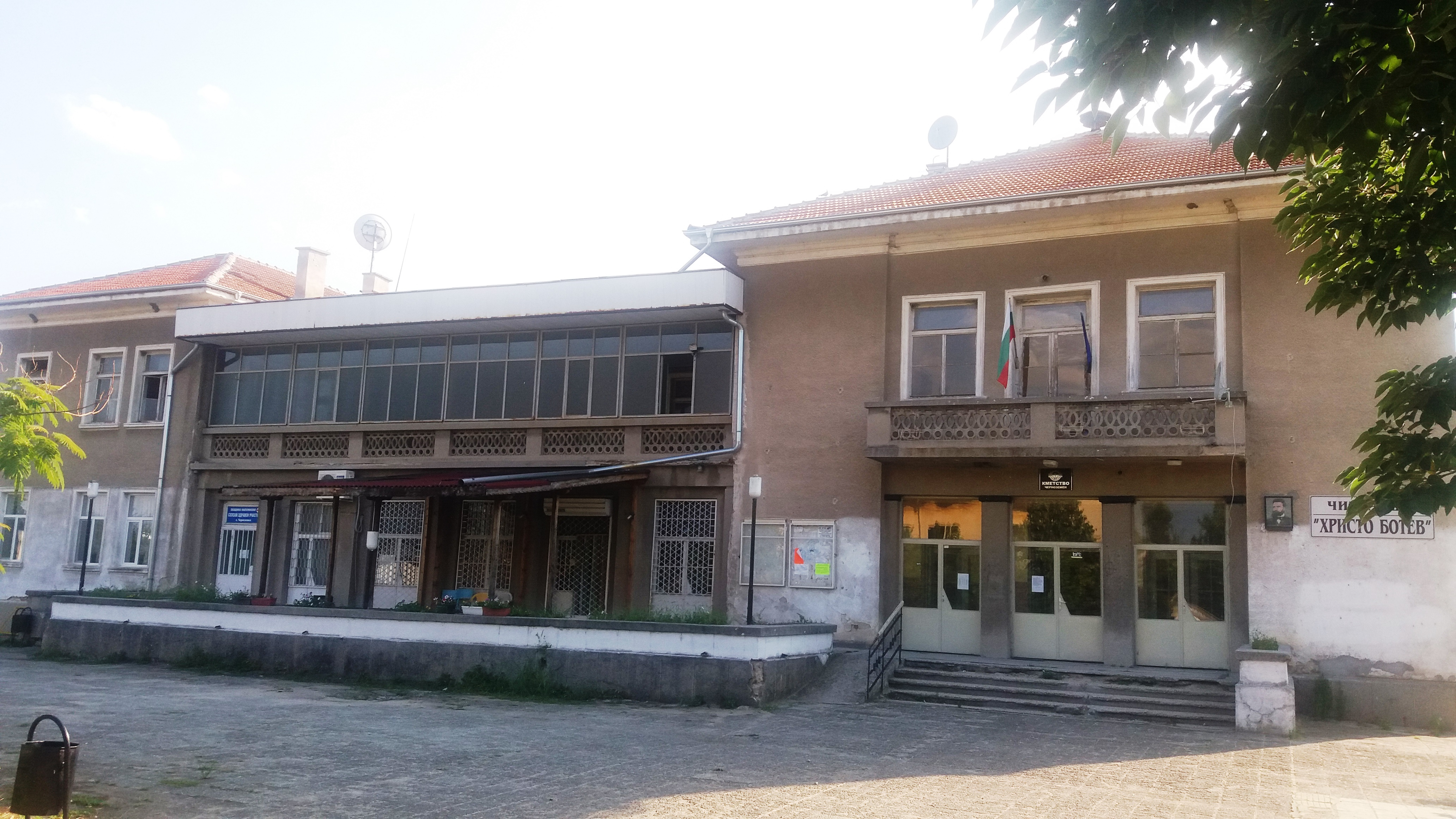 Mayor's place and lycaeum in Chernozemen, Plovdiv province, Bulgaria